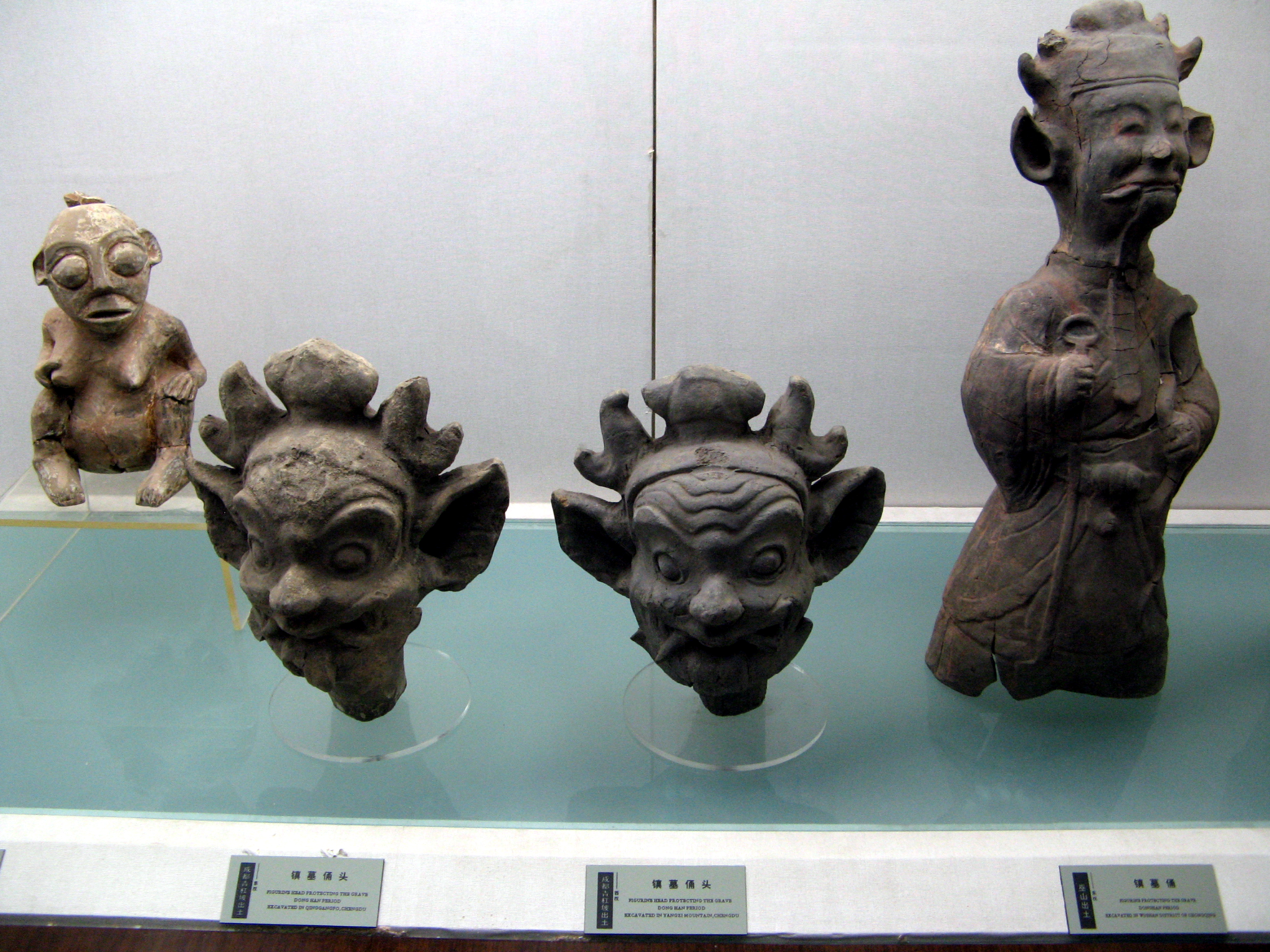 Grave Guardians. Eastern Han Dynasty. Three Gorges Museum, Chongqing In this whimsical display, three grave guardians, with fangs and exaggerated fierce expressions, are peeped at by a nude wet-nurse.